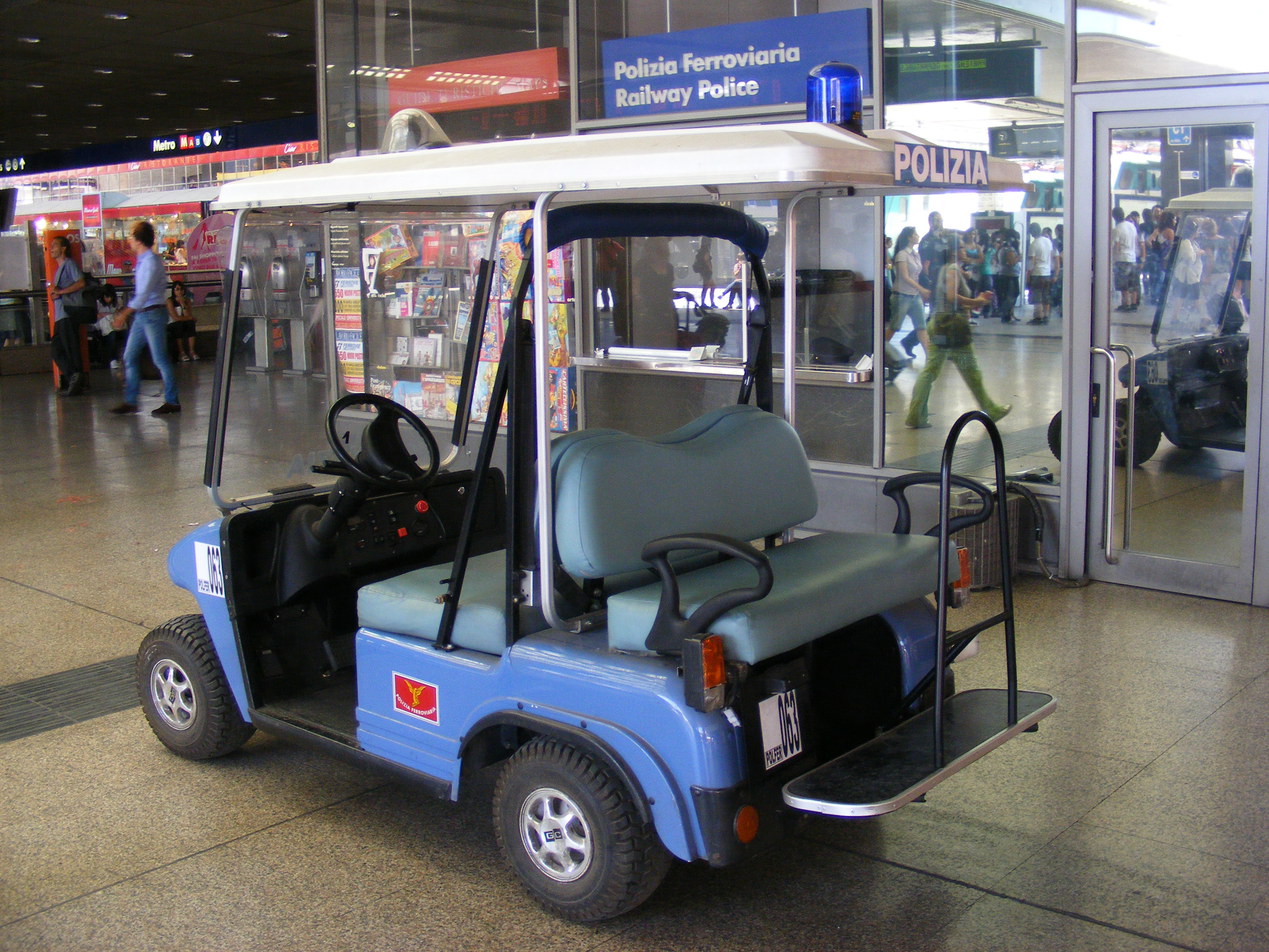 Polizia Ferroviaria (Railway Police) cart in front of Polizia Ferroviaria at Roma Termini Police station